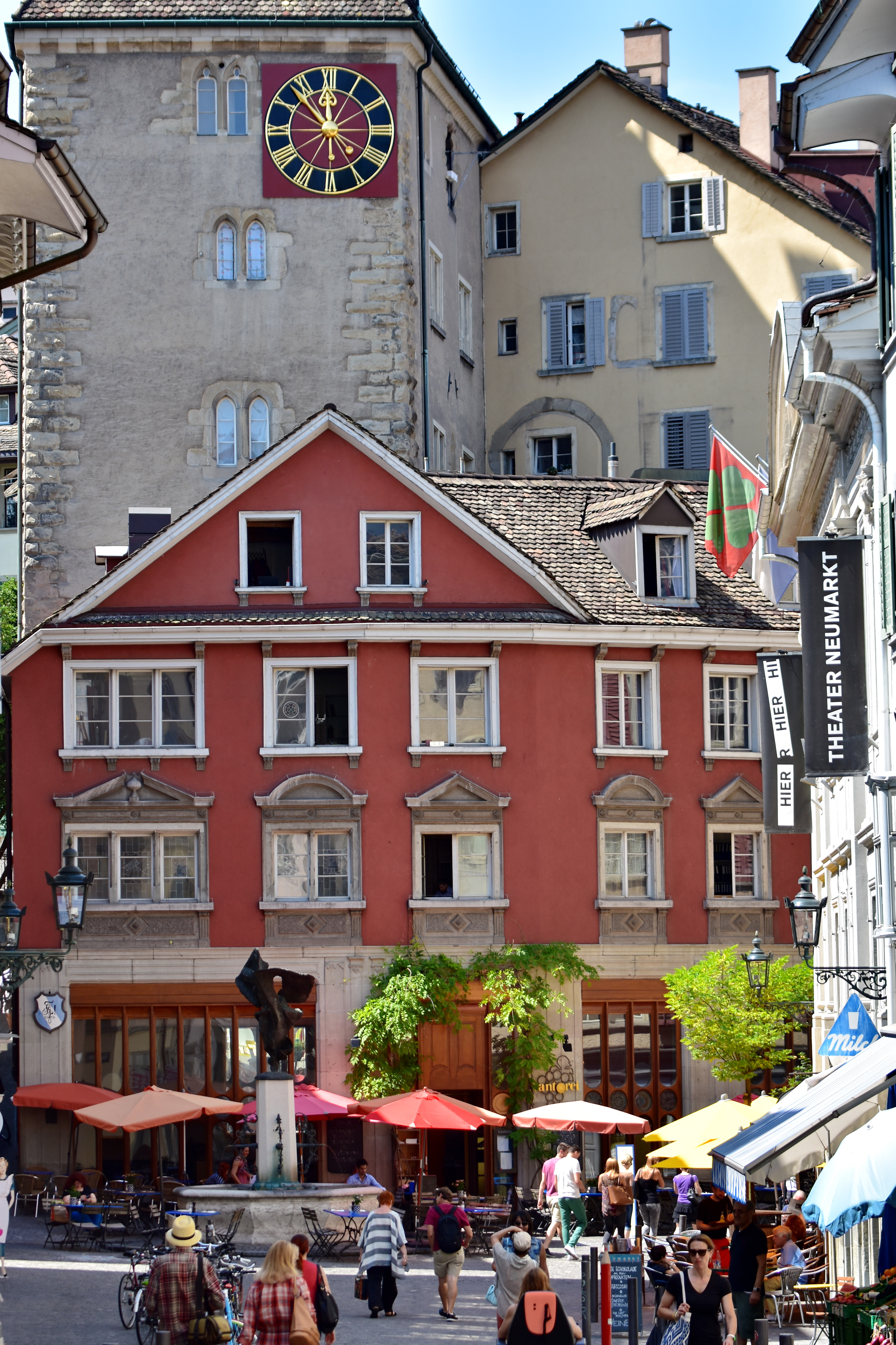 Grimmenturm and Theater to the right, Neumarkt in Zürich (Switzerland)